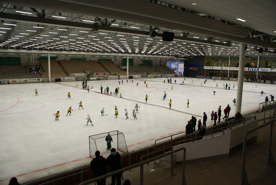 ABB Arena Syd, Multiarena, Indoor Bandystadium in Västerås, Sweden.